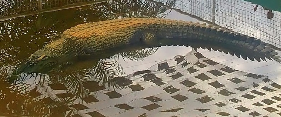 This is Lolong, the massive saltwater crocodile (Crocodylus porosus) captured in a creek in Bunawan, Agusan del Sur.